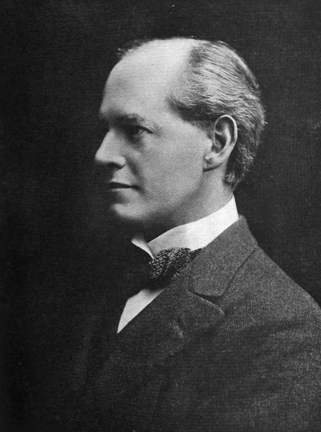 John Galsworthy